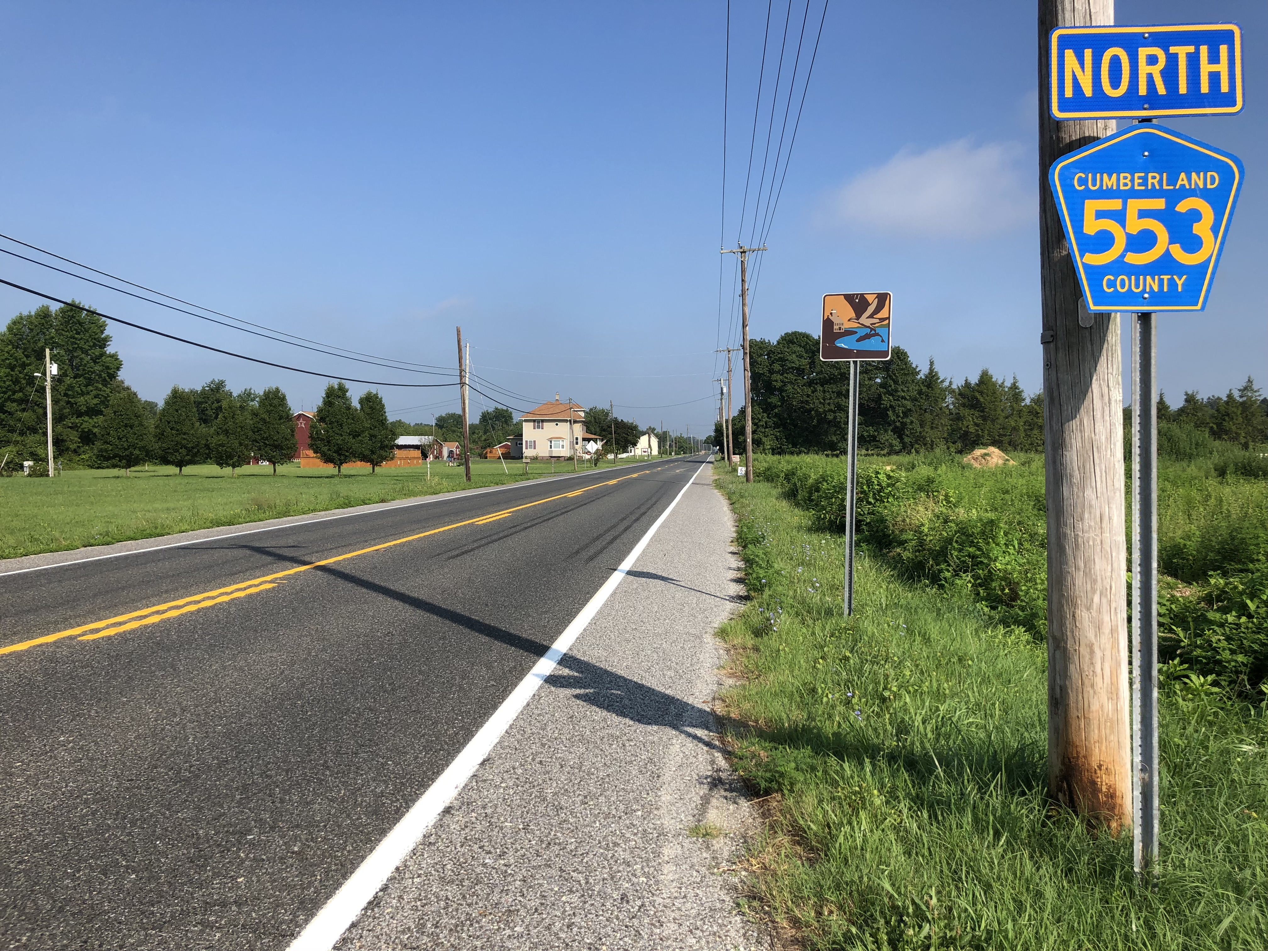 View north along Cumberland County Route 553 (Bridgeton-Port Norris Road/Main Street) just north of Cumberland County Route 629 (Back Road/Newport-Centre Grove Road) in Lawrence Township, Cumberland County, New Jersey